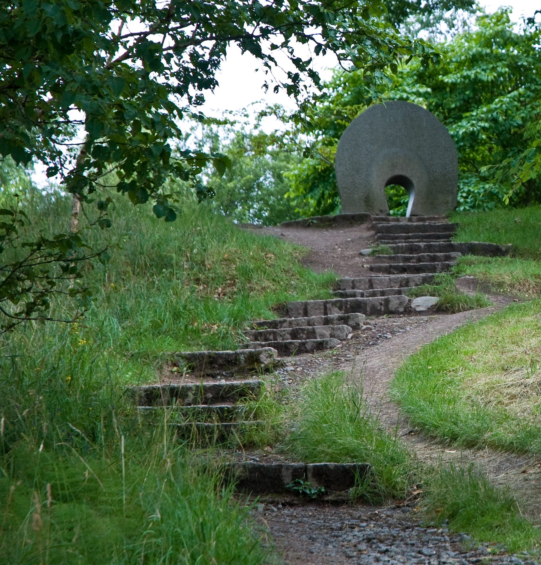 Granite sculpture Ljusbåge (1996) by sculptor Erik Åkerlund, in the Botanical Gardens of Gothenburg, Sweden.